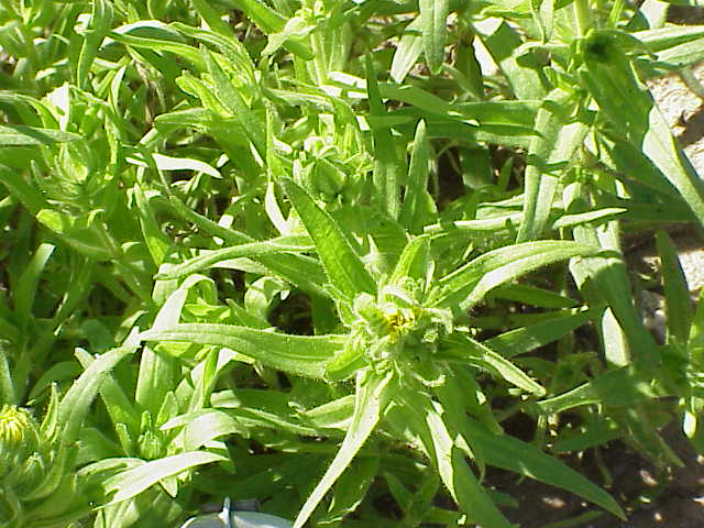 Species: Madia sativa Family: Compositae Image No. 1